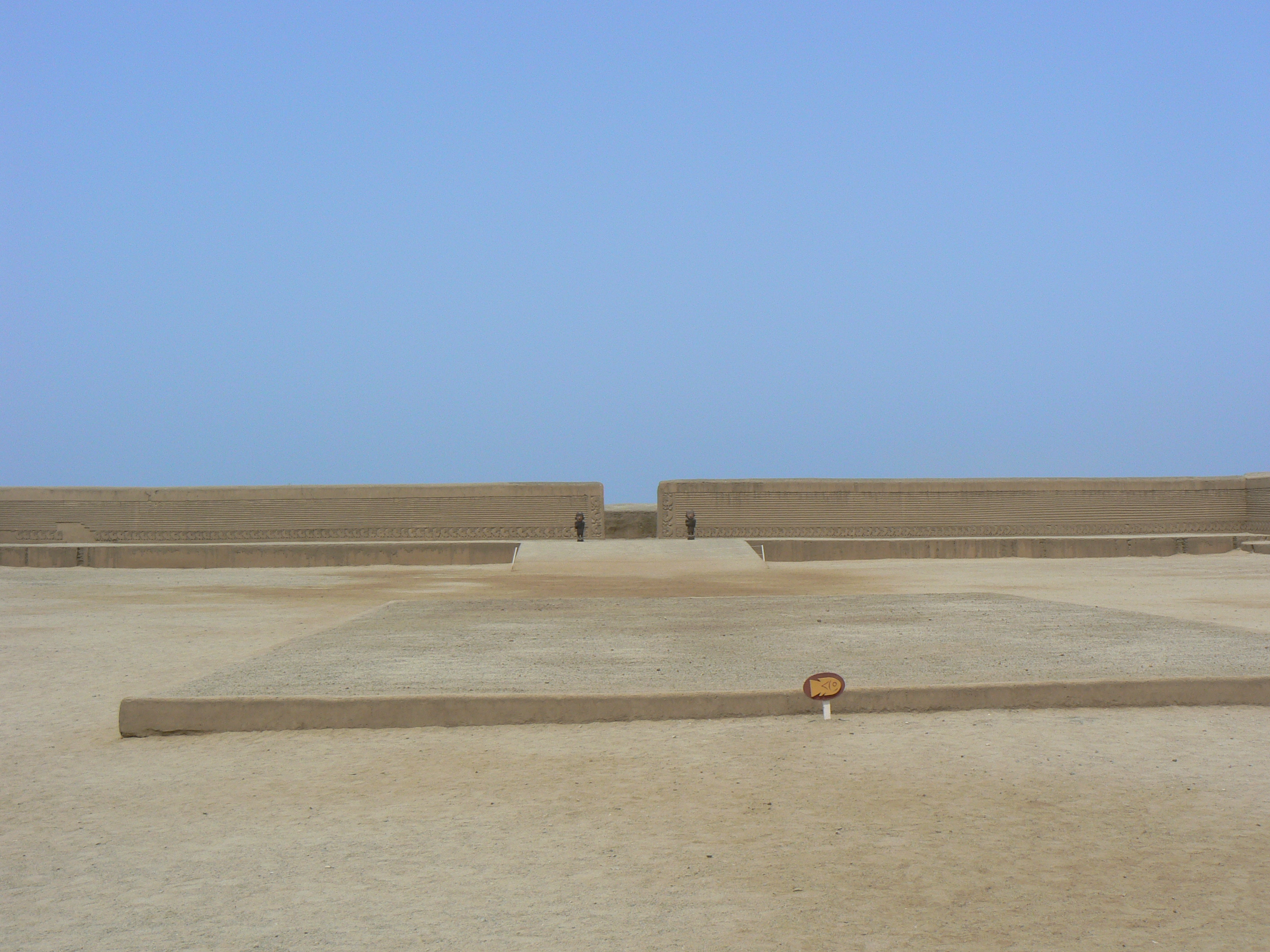 View of the main assembly square of the adobe Tschudi palace at the pre-Inca Chimu culture site of Chan Chan, near modern Trujillo, Peru.